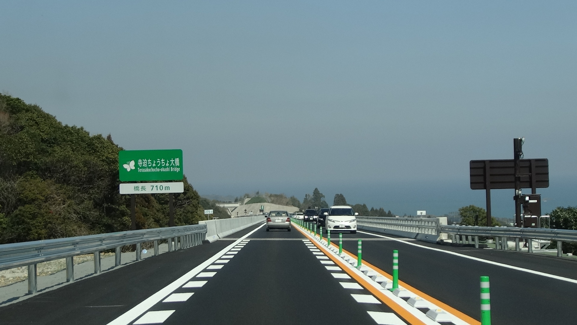 The Terasako-chocho-Ohashi Bridge of Higashi-Kyushu Expressway in Hyuga City, Miyazaki Prefecture, Japan.